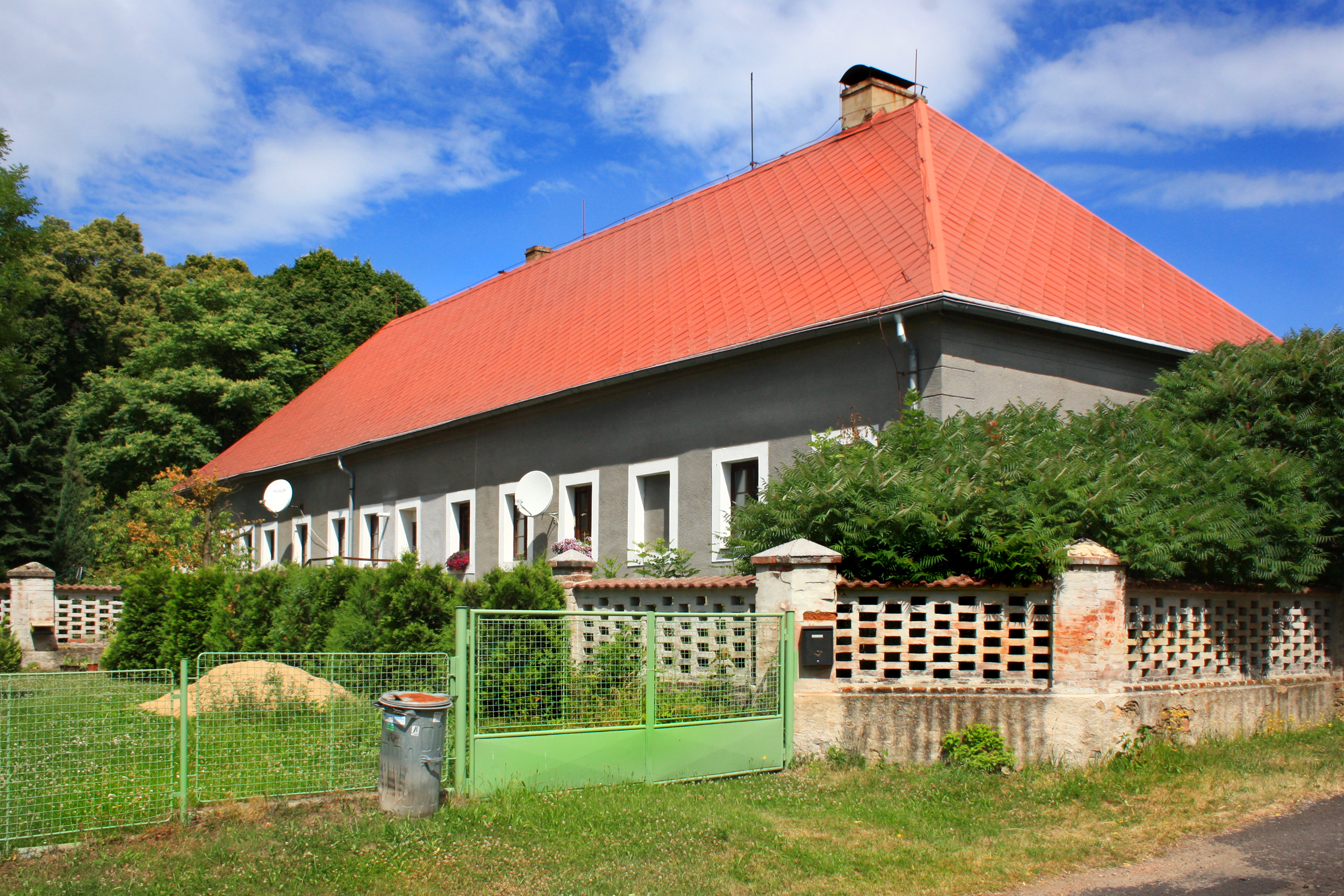 Agricultural yard at Červený Hrádek, part of Jirkov, Czech Republic